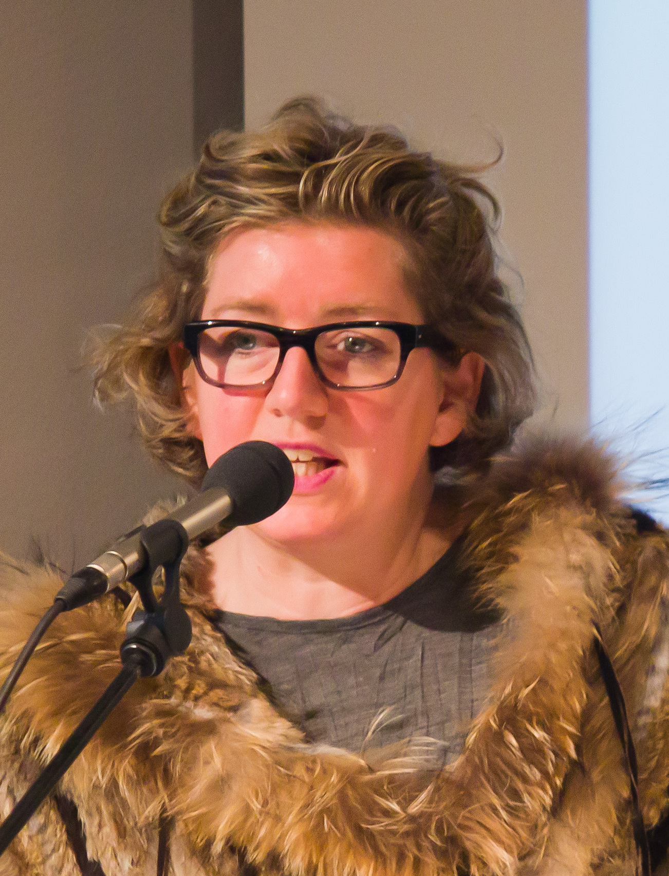 Charlotte Sahl-Madsen, Minister for Science, Technology and Innovation, Denmark - crop